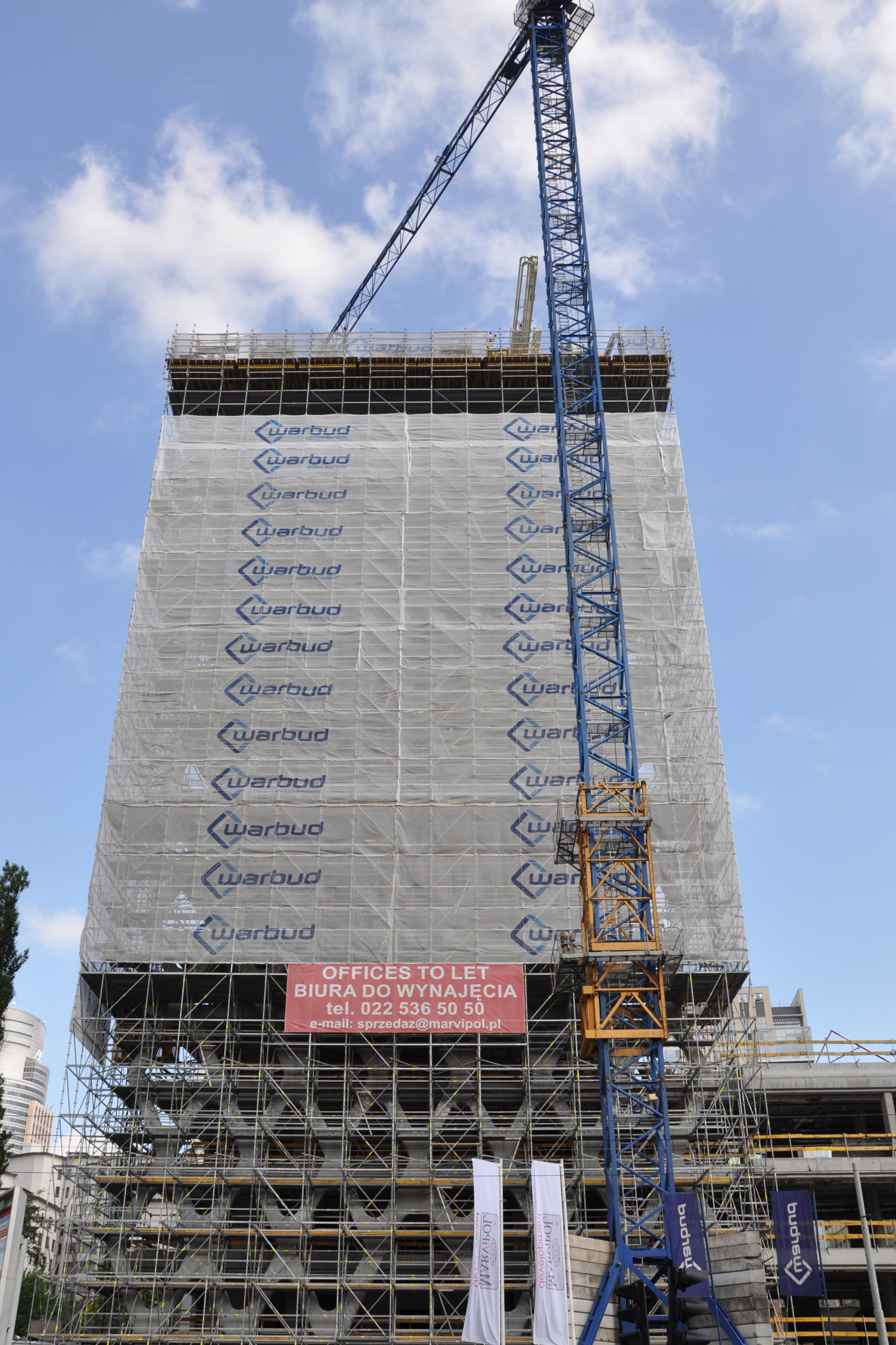 Prosta Tower, building in Warsaw